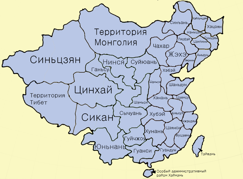 Map of the Republic of China in Russian